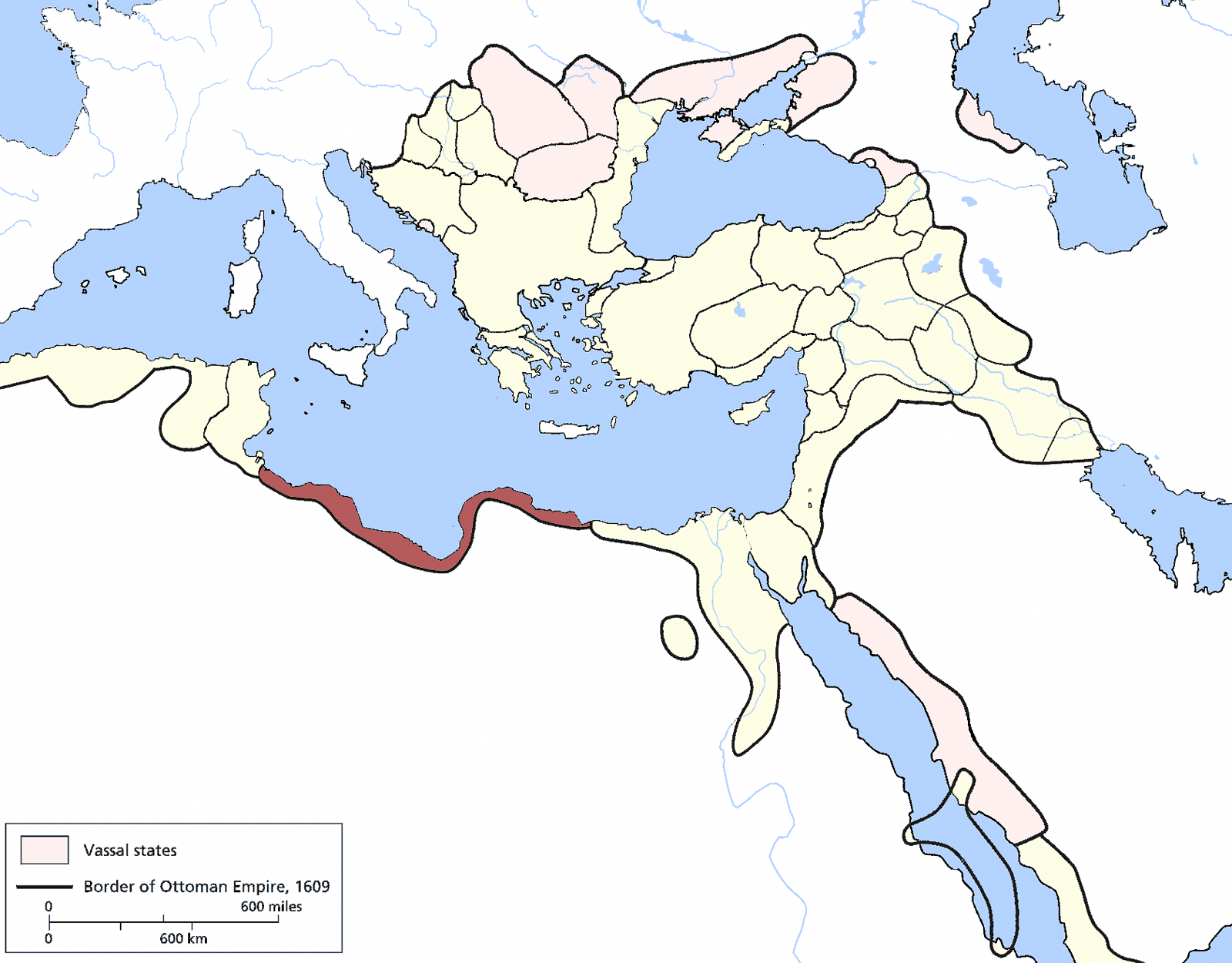 Tripolitania Eyalet, Ottoman Empire (1609). Source: Encyclopedia of the Ottoman Empire at Google Books By Gábor Ágoston, Bruce Alan Masters